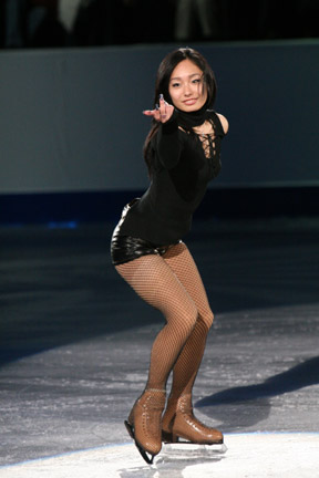 Miki Ando (JPN) at the 2008 4 Continents Championships exhibition.